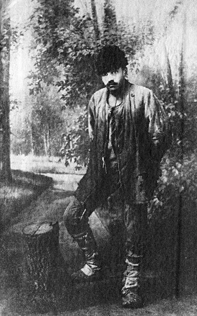 Photo of the judicial investigator for particularly important cases, and the author of the book "Murder of the Royal Family" N. Sokolov, as disguised peasant. In this dress, hiding from the Reds, he made walking a dangerous path, making his way through the Ural mountains in Siberia, occupied by white troops.